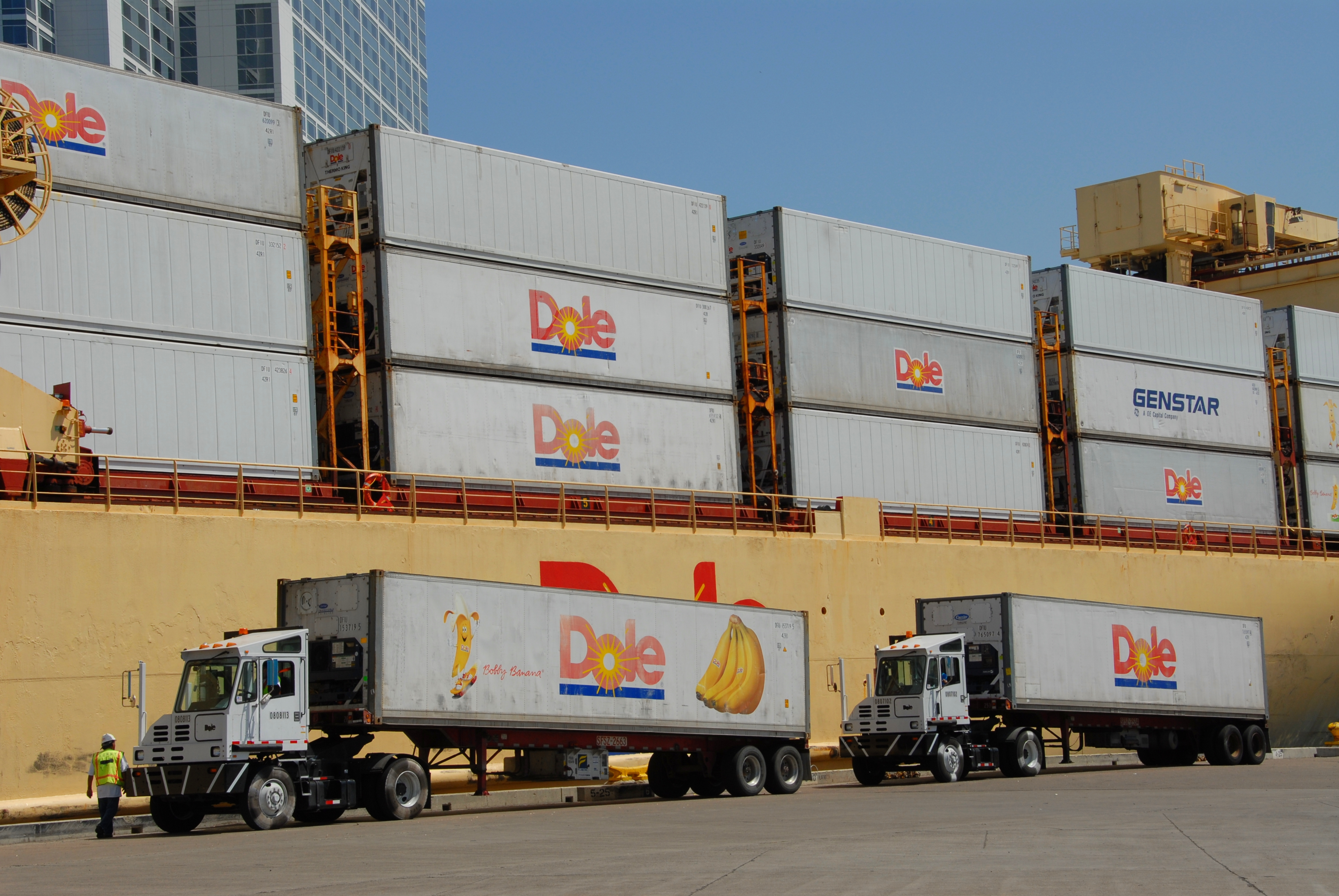 185 million bananas are imported through the Port of San Diego each month. (Photo Courtesy: Dale Frost)